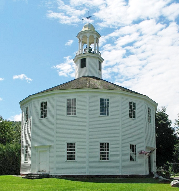 Description: Exterior photograph of the Old Round Church, Richmond, Vermont Source: Photograph taken by Jared C. Benedict on 08 August 2004. Copyright: © Jared C. Benedict. See also: Interior photograph